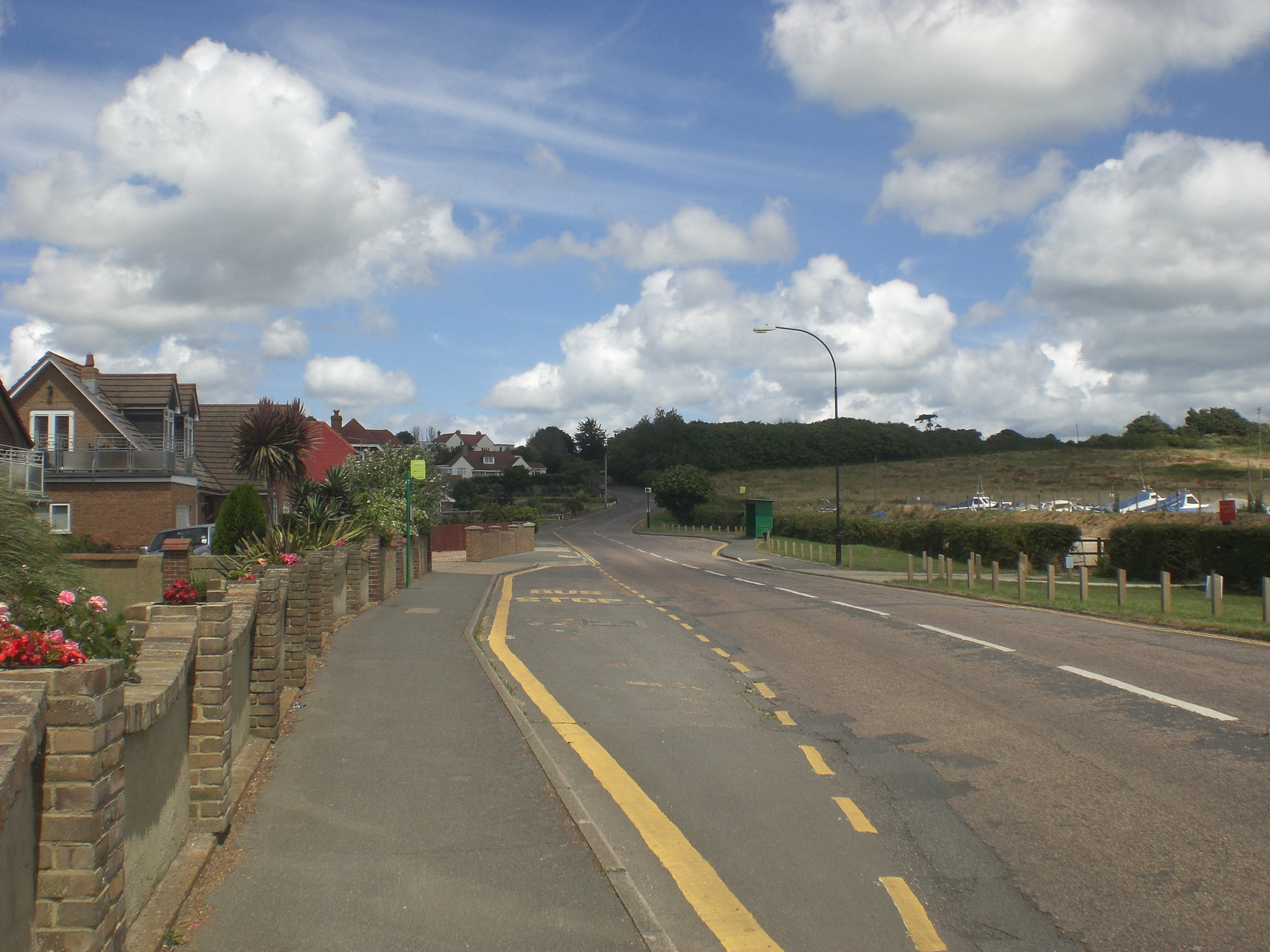 Yaverland Road, Yaverland on the Isle of Wight. This is the main road through the village, passing the seafront. Seen are the bus stops, serving at the time Southern Vectis route 10 in either direction. Route 10 was withdrawn after the last bus on 19 December 2009, and these stops are served by its partial replacement.